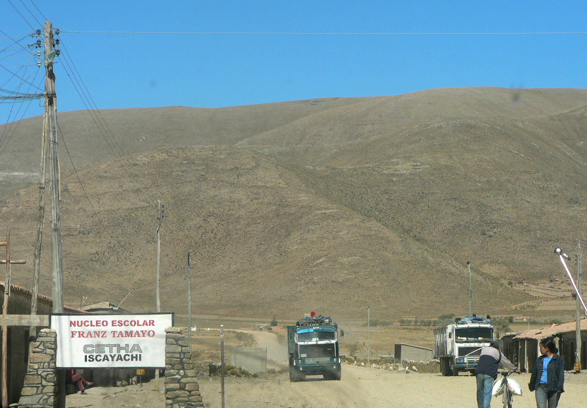 Street scene in Iscayachi, Departamento Tarija, Bolivia (2006) when the main road between Tarija and Potosí was still going through this village.